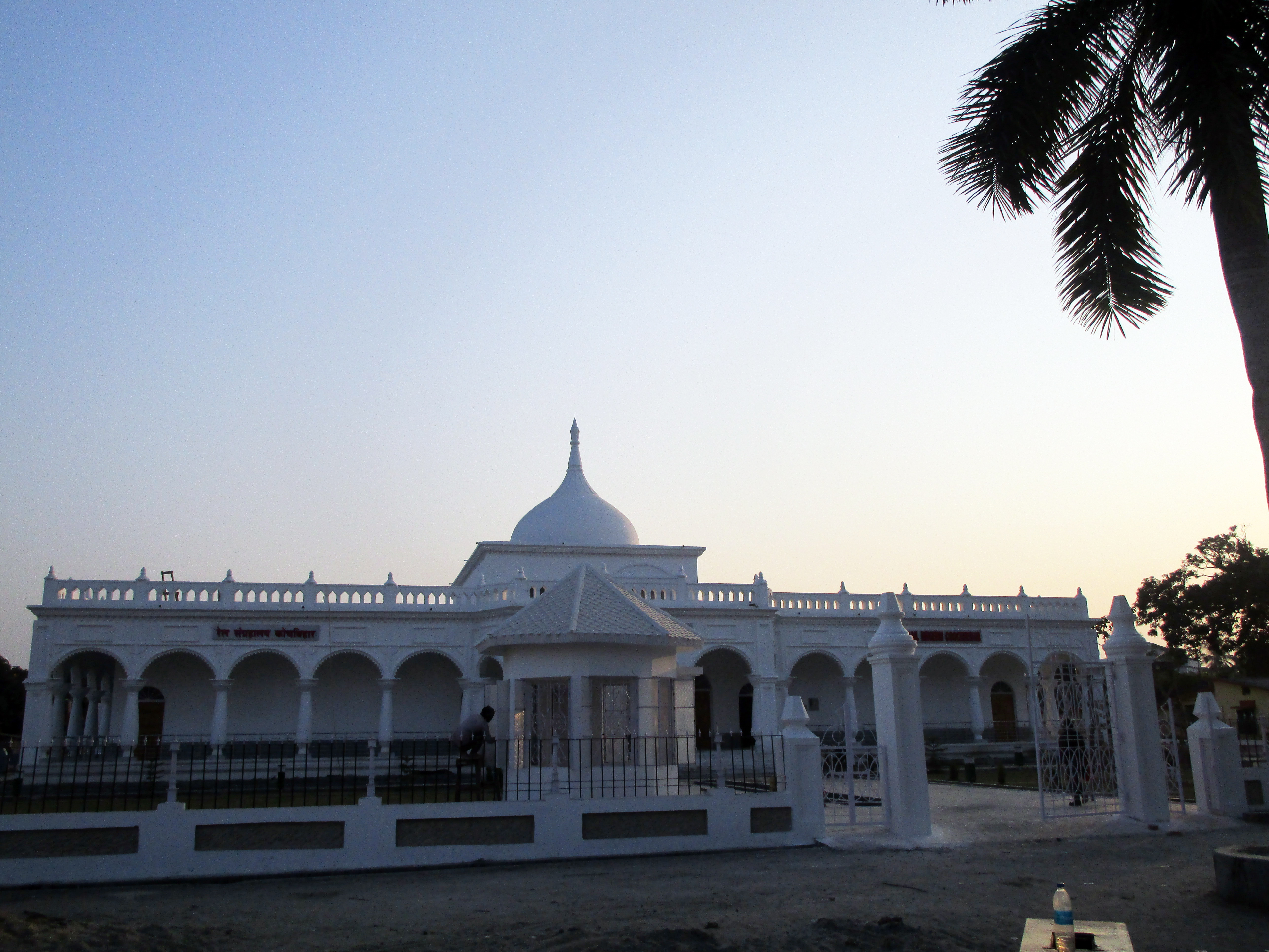 Rail Museum at Coochbehar.